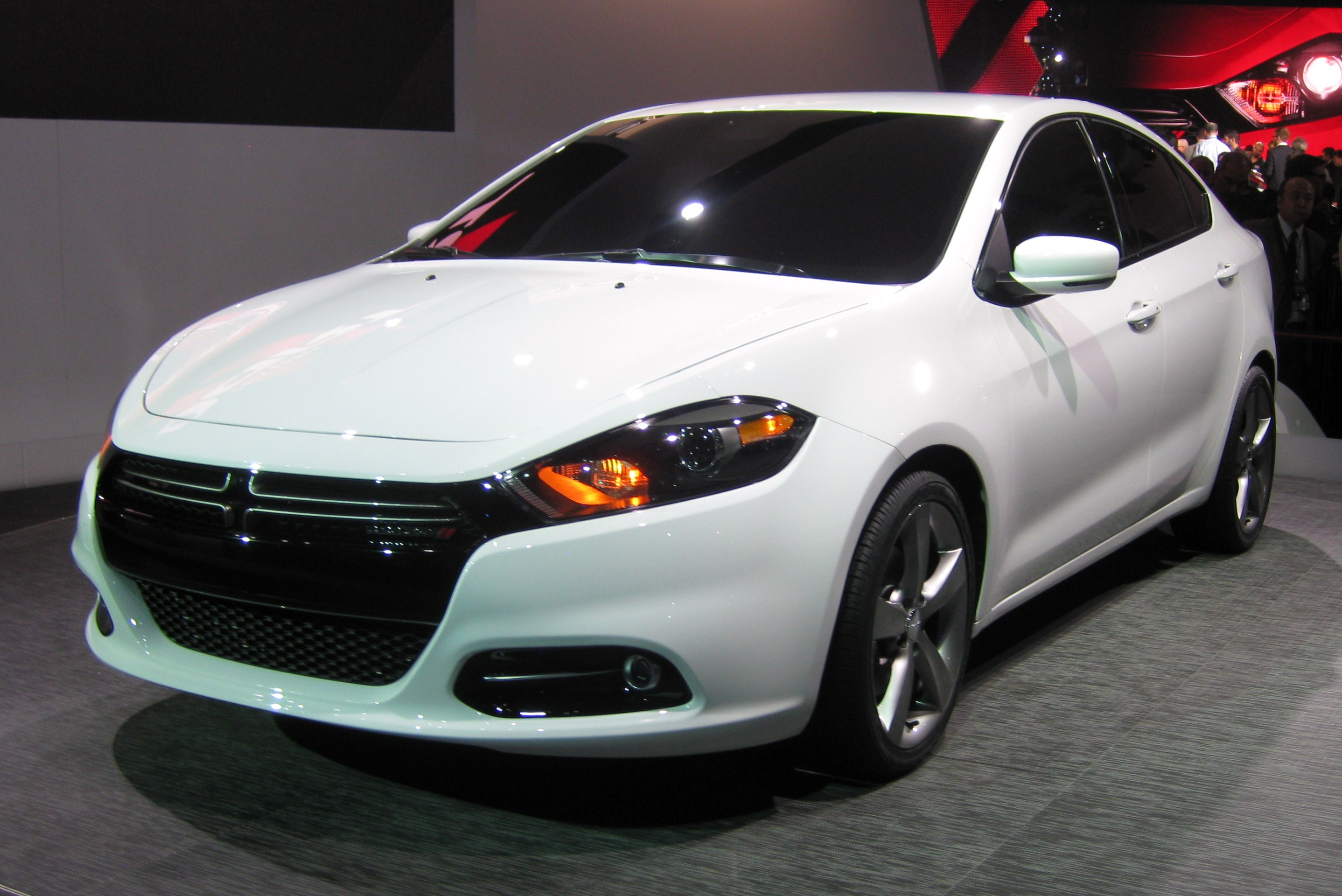 For more info and images please check